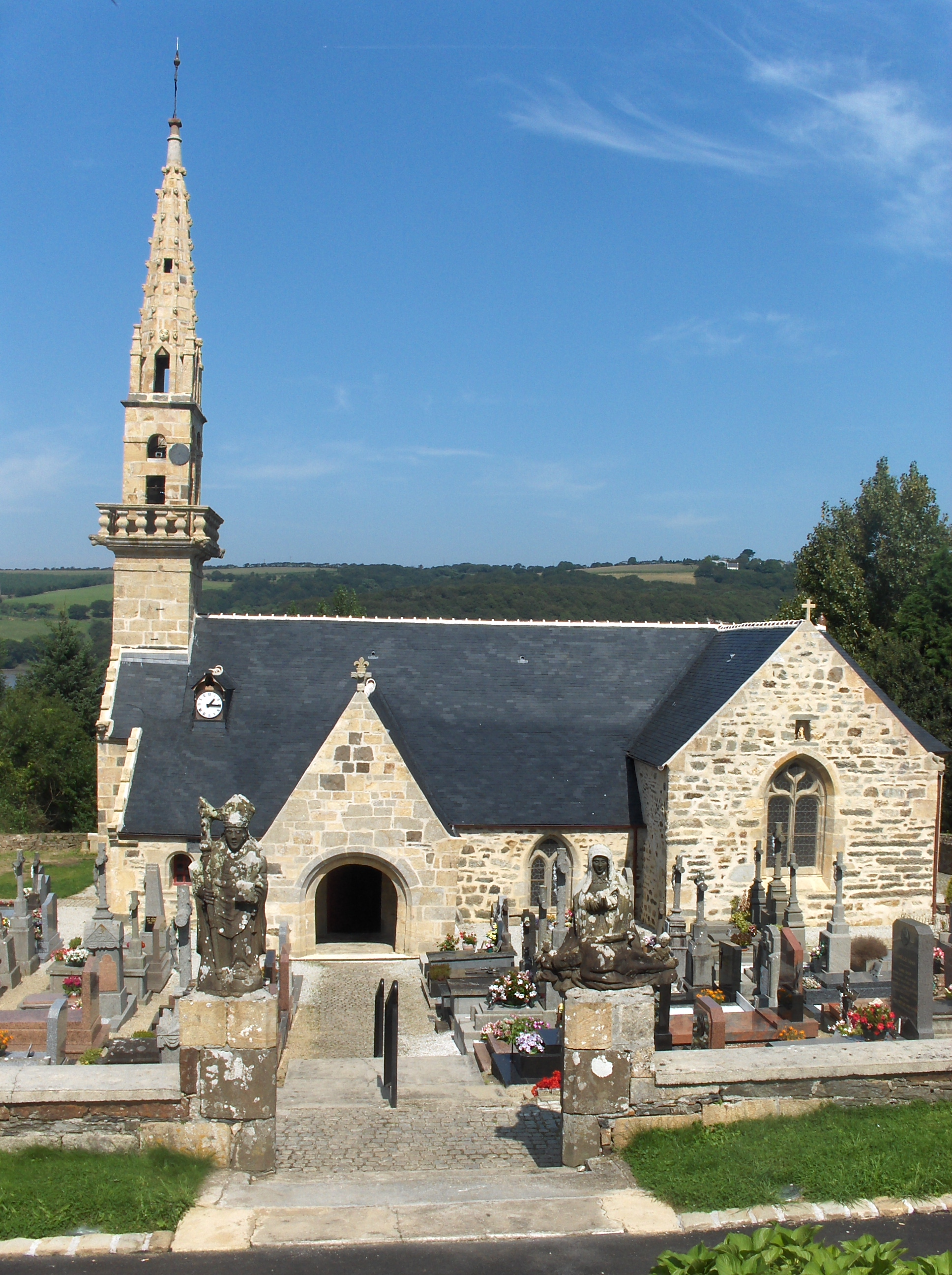 Church of Tregarvan, Finistère, Britanny, France